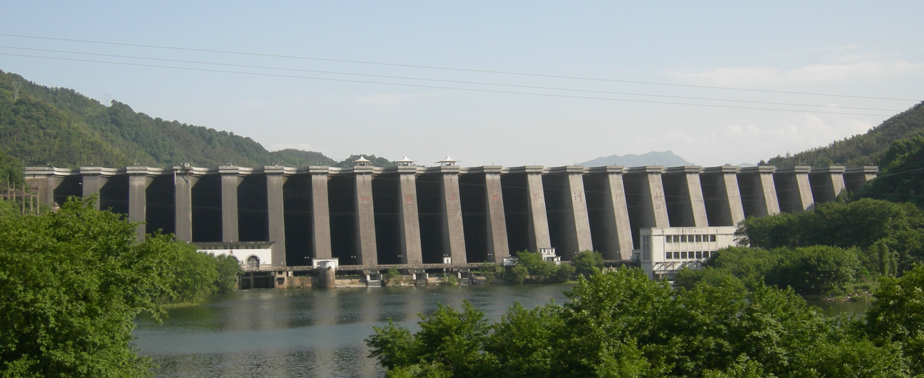 Foziling Dam